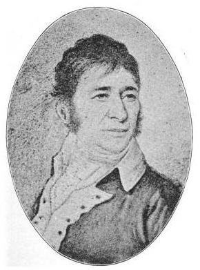 Major Reading Blount (1757–1807), American Revolutionary War officer and North Carolina merchant. He was the brother of Senator William Blount and Congressman Thomas Blount, and half-brother of Governor Willie Blount.